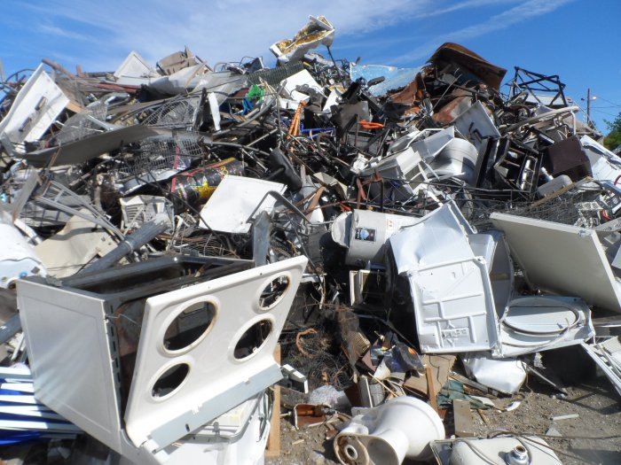 Four Hills Landfill, Nashua, New Hampshire